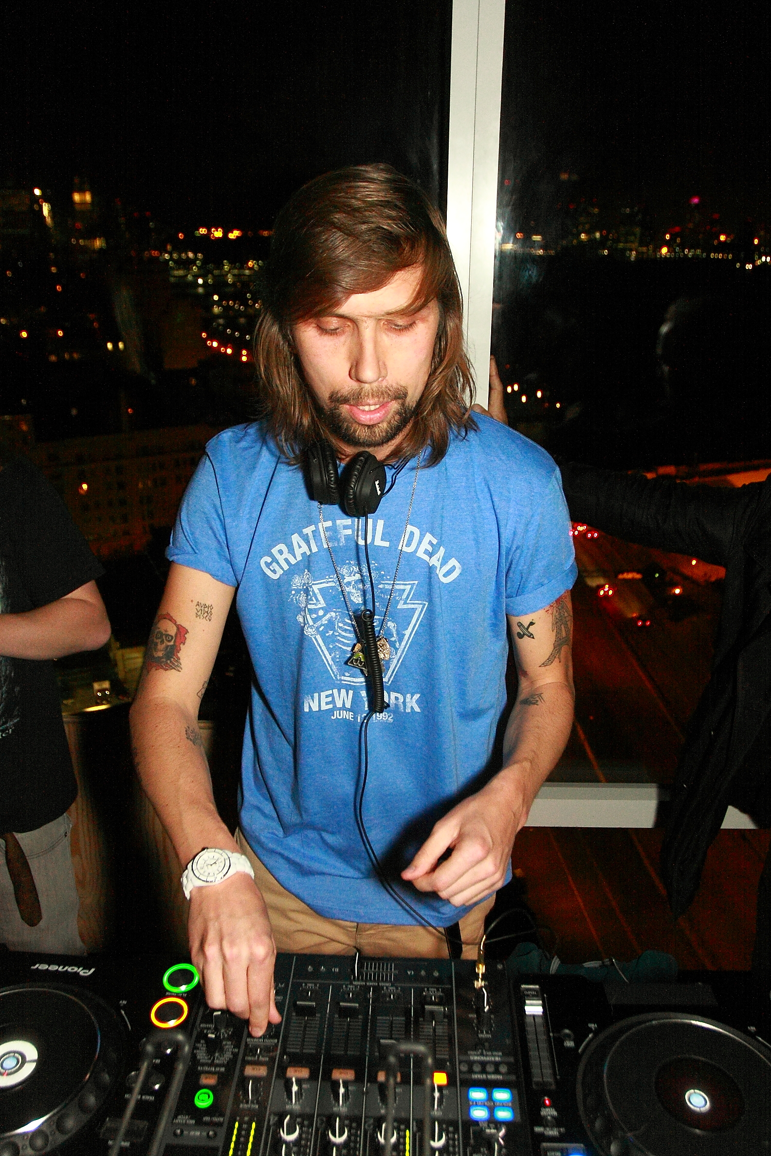 Pedro Winter playing in New York for Nouveau York at the Standard Hotel Picture by Charles Roussel